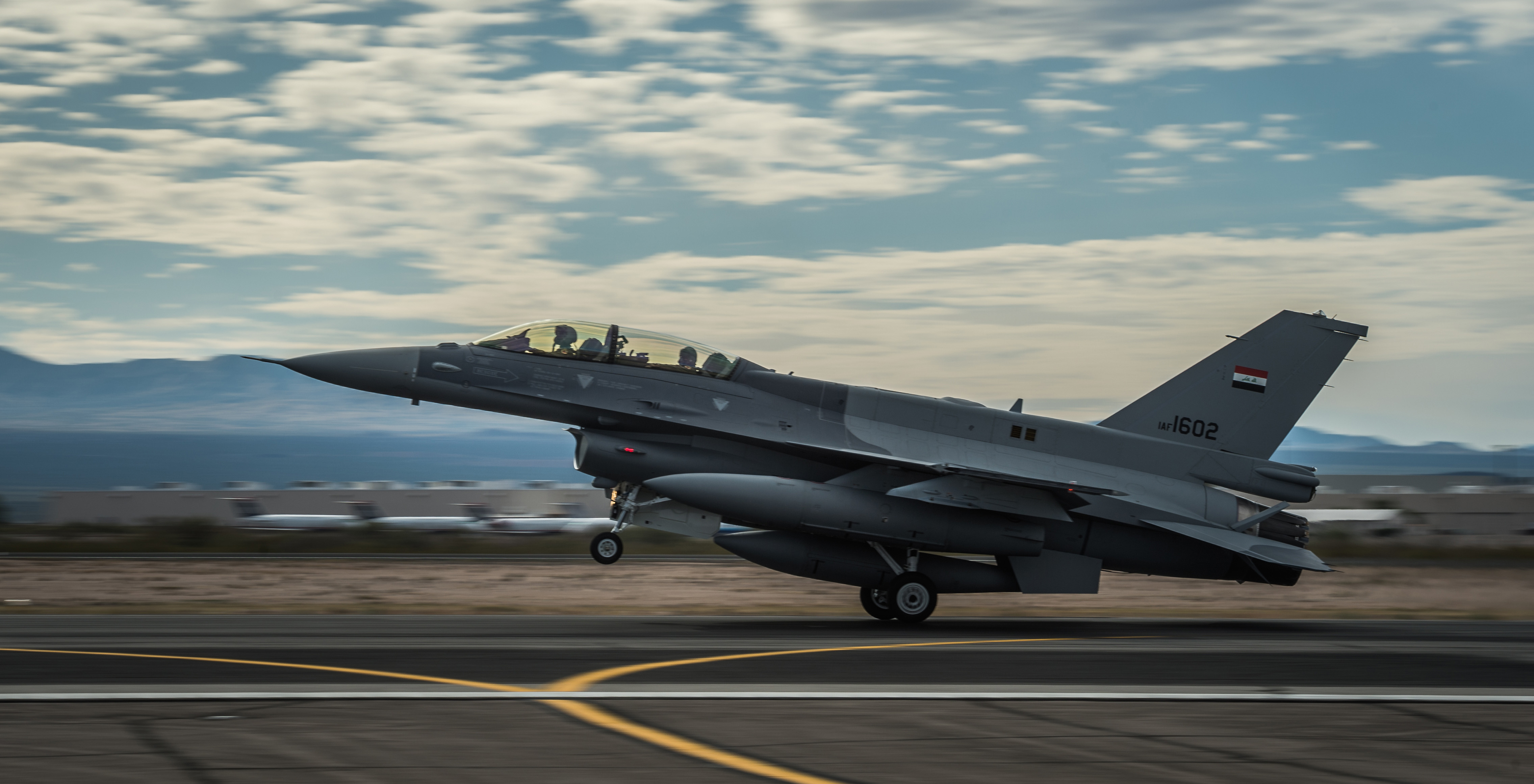 Lt. Col. Julian Pacheco and Iraqi air force captain Hama land one of the IAF's new F-16 Fighting Falcon aircraft Dec. 16, 2014, at the Tucson International Airport, Ariz. Due to the current security situation in Iraq, the IAF pilots will complete their training in their own aircraft in the U.S. (U.S. Air Force photo/Senior Airman Jordan Castelan)